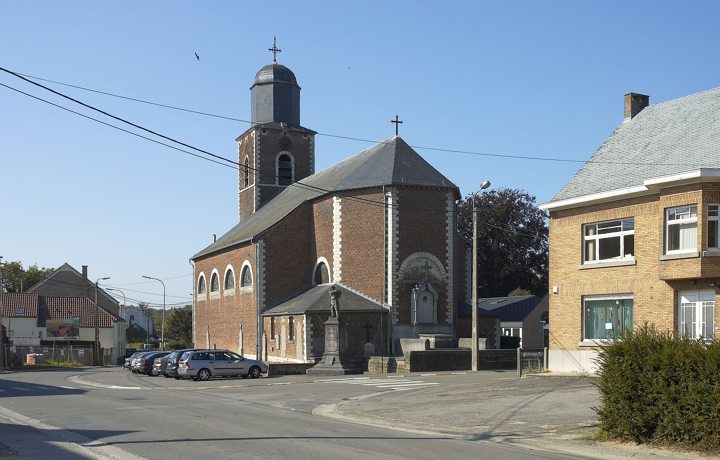 the St. Amand church in Hamme-Mille, Belgium